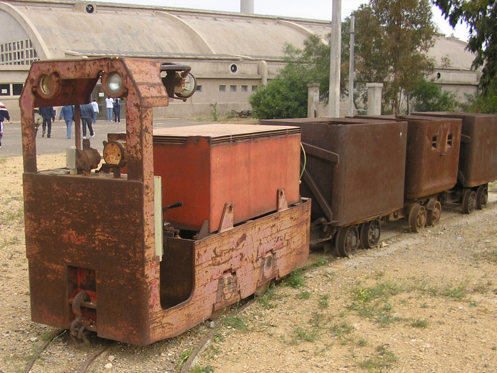 Little locomotive with wagons for the coal in the Serbariu coalmine, in Carbonia, Sardinia, Italy